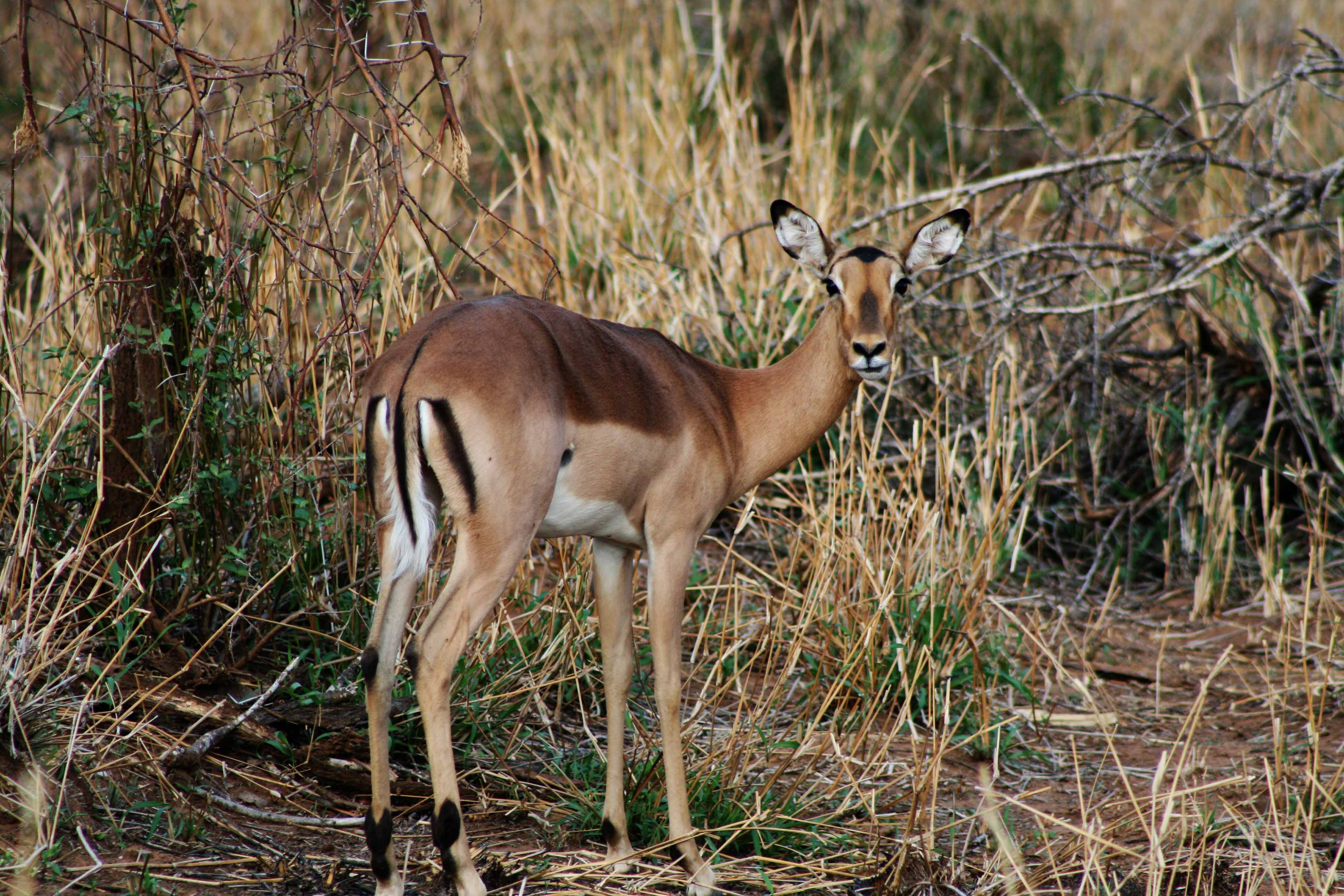 Impala ewe from behind. Pafuri region Kruger National Park, South Africa. Photo by Lee R. Berger.